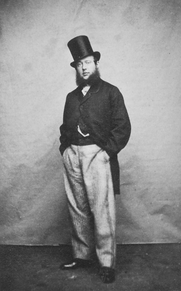 Alexandre Basilewsky (1829-1899)